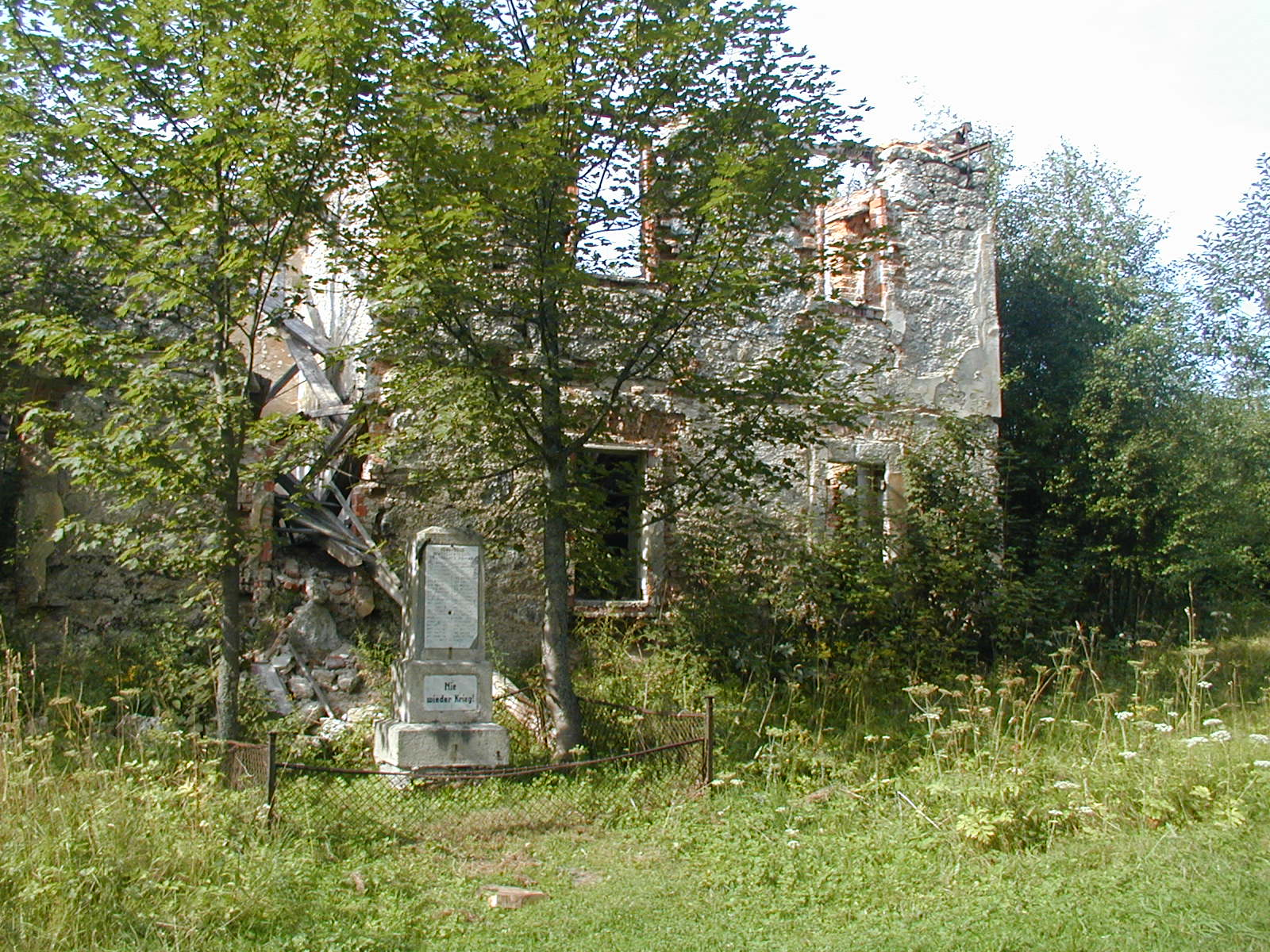 House (former school) with memorial of war victims in Pohoří na Šumavě